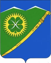 Coat of arms of Voznesensakaya, Labinsk Raion, Krasnodar Krai, Russia.